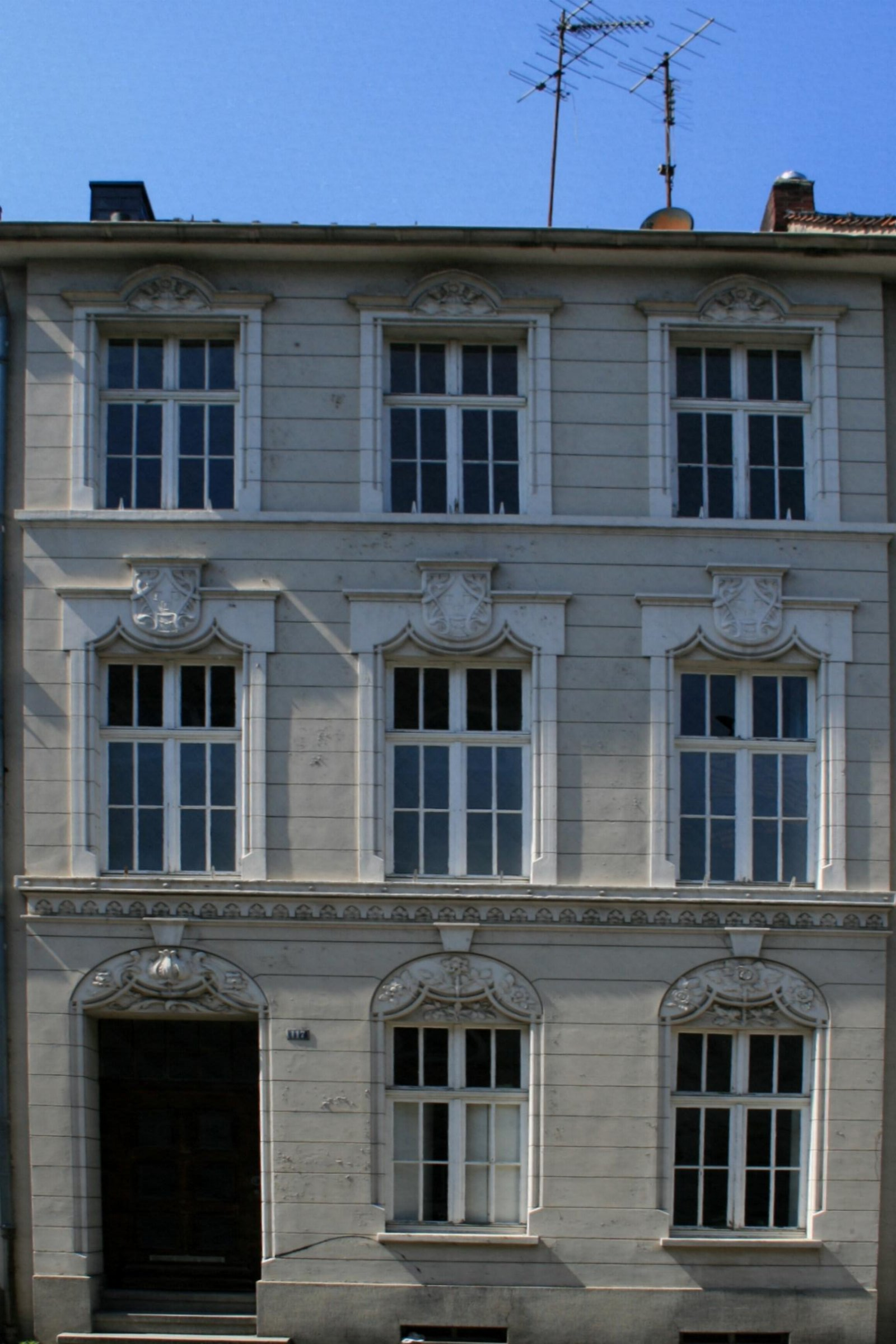 Cultural heritage monument No. R 014 in Mönchengladbach